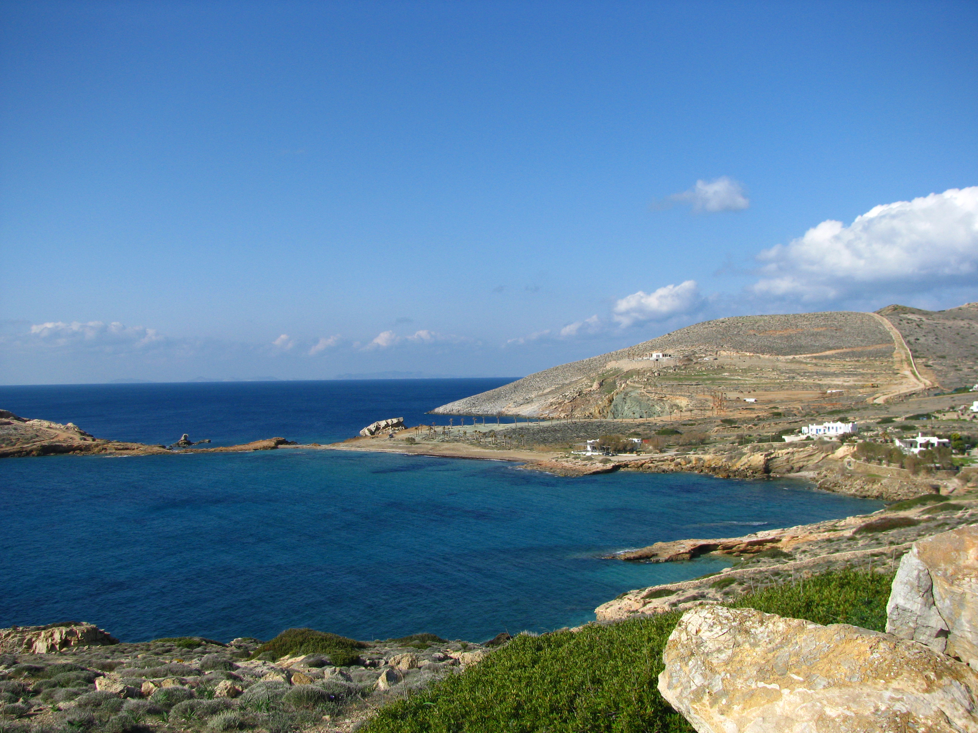 Koumpara beach in Ios